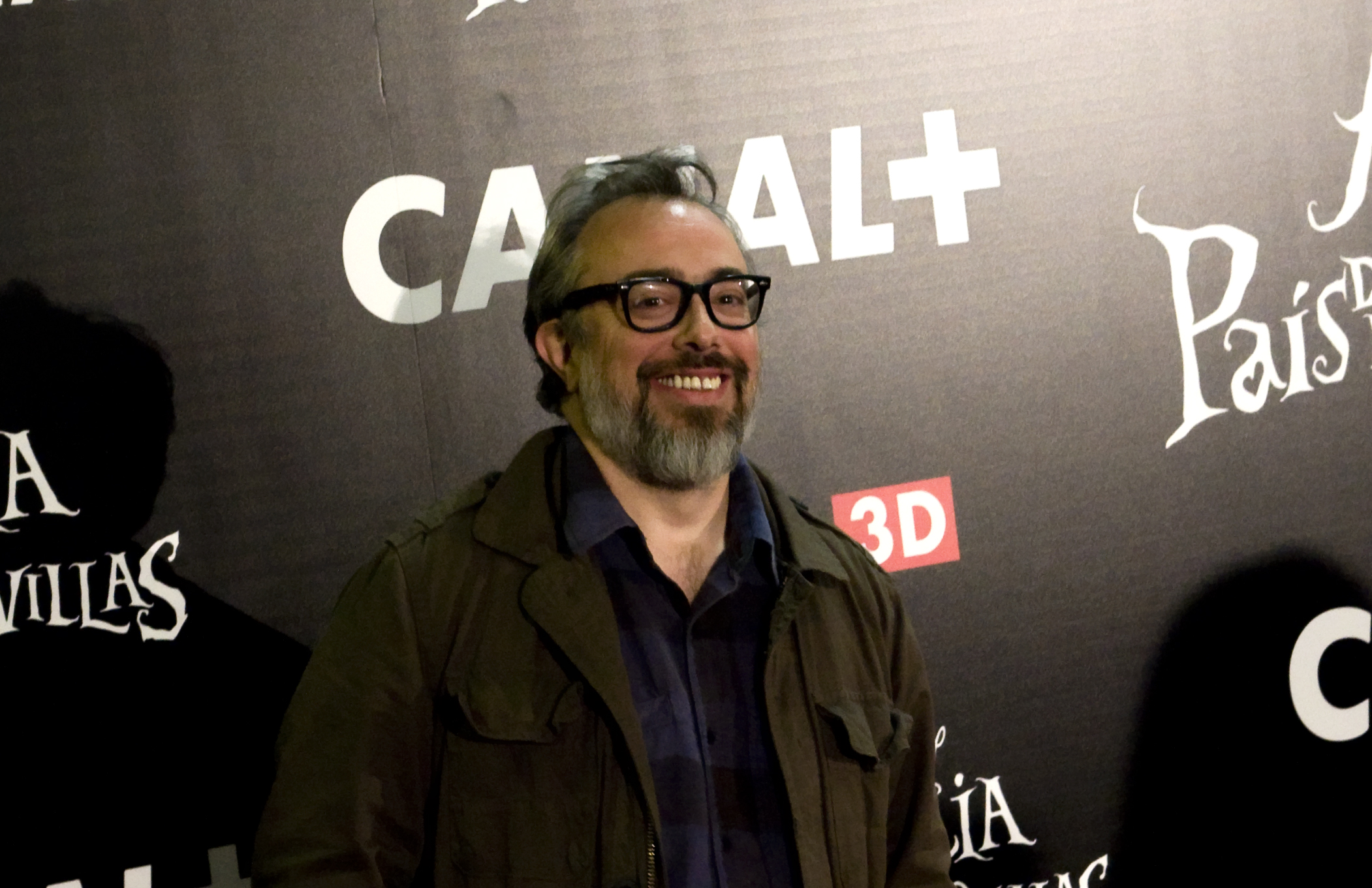 Álex de la Iglesia Spanish director, producer, screenwriter and former cartoonnist at the photocall of Alice in Wonderland in 2010.